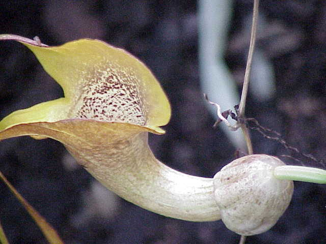 Species: Pararistolochia promissa Family: Aristolochiaceae Image No. 3